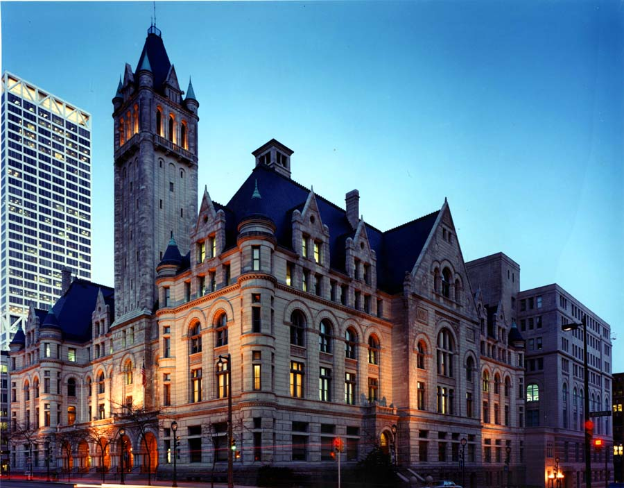 Federal Building and U.S. Courthouse, Milwaukee, WI, August 2003